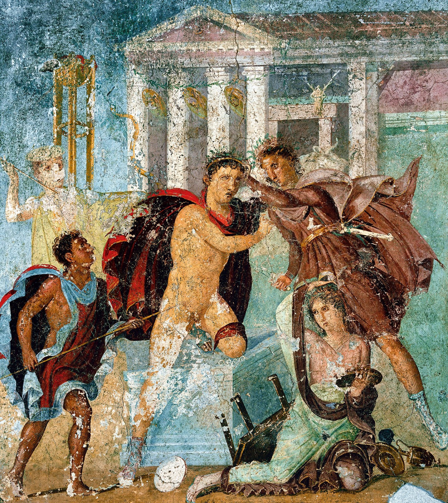 Scene from the tragedy Andromache by Euripides. Roman fresco from the west wall of the winter triclinium in the Casa di Marco Lucrezio Frontone (V 4,a) in Pompeii.